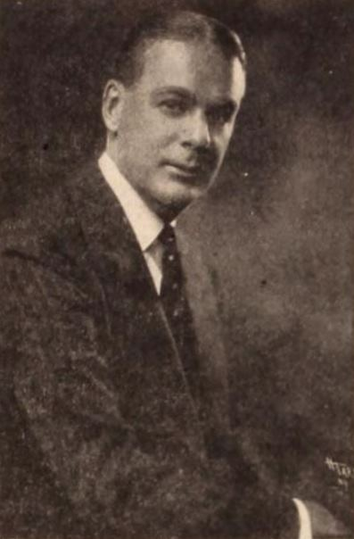 Actor Huntley Gordon, on page 92 of the November 6, 1920 Exhibitors Herald.